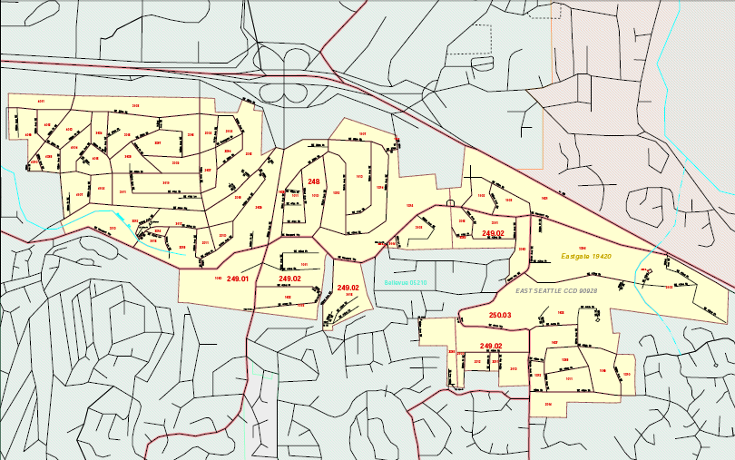 Census 2000 Block map - Eastgate CDP